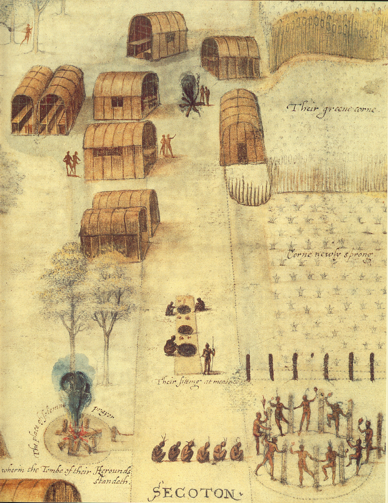 Village of the Secoton, Watercolour painted by John White, 1585.